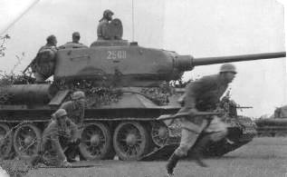 T-34 from JNA (Yugoslav People Army) in 1969 (sitting on top of the tank is my self - don't mess with this picture)